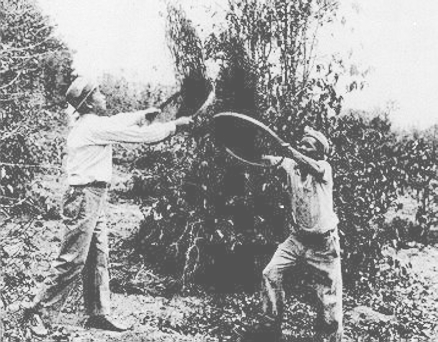 Japanese Workers in Coffee Sieving